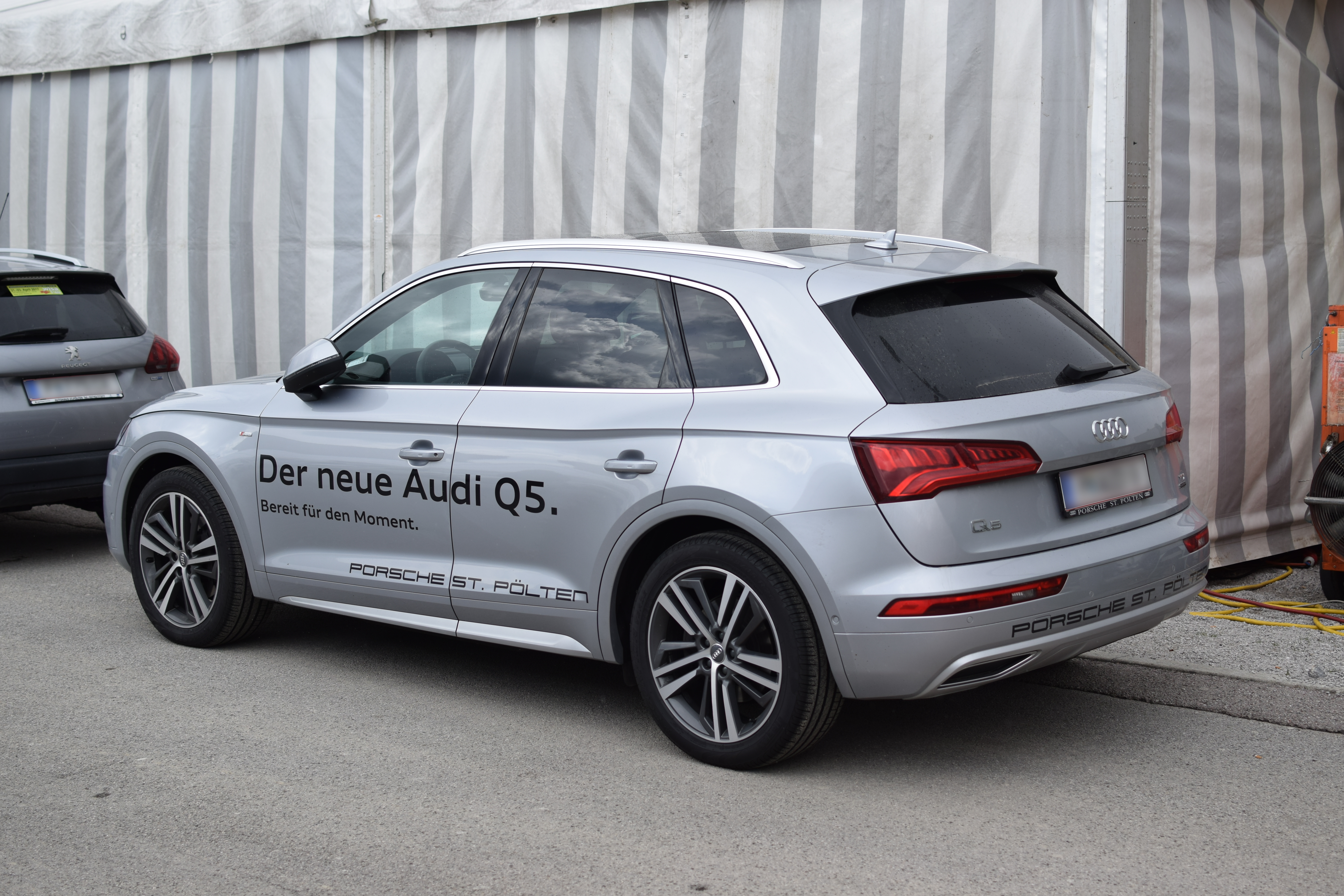 2017 Audi Q5 (FY) from the rear in silver